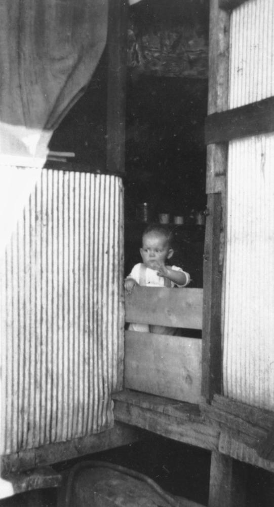 All hemmed in, Mount Isa, ca. 1930 Tent houses erected by mine workers' families as temporary housing were constructed of a variety of handy materials. A toddler is standing at the doorway behind an improvised wooden gate.